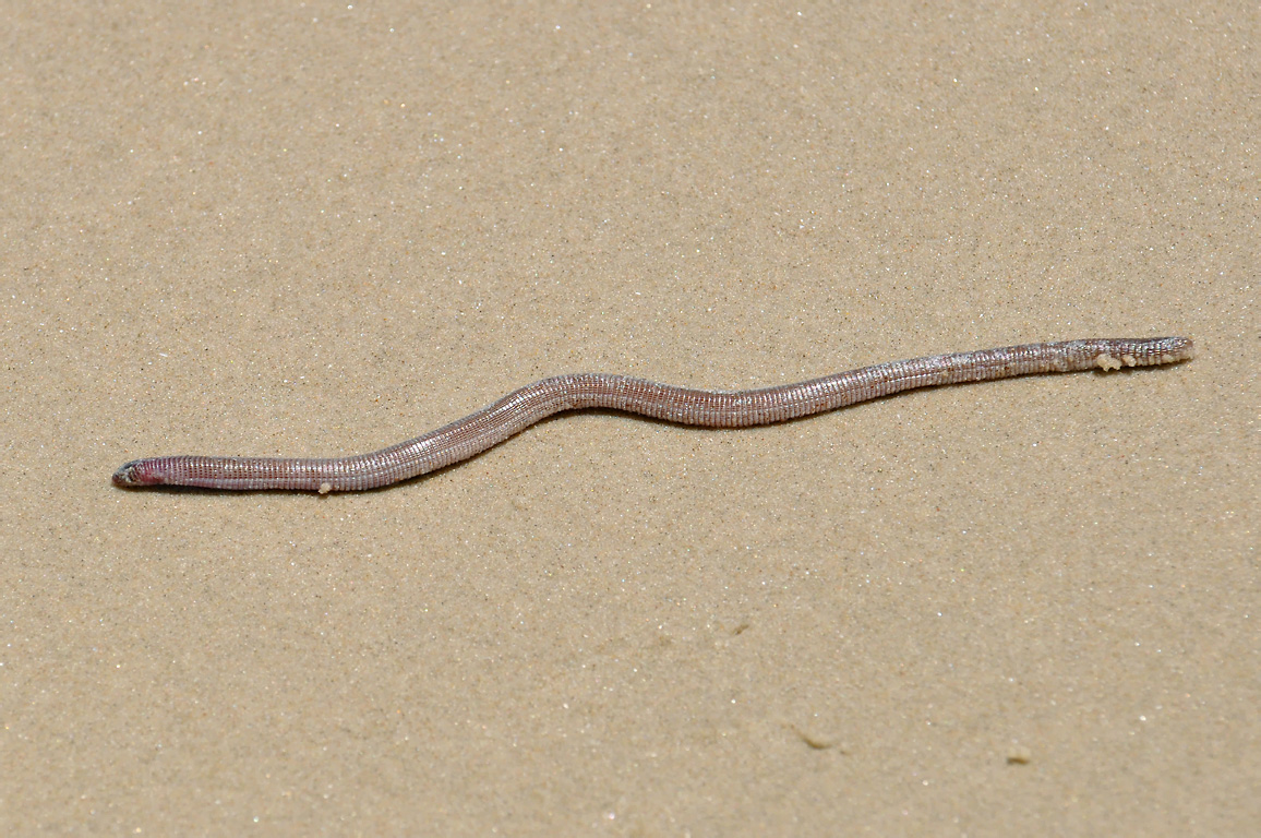 Amphisbaena trachura photographed on the Atlantic coast of Rio Grande do Sul, Brazil, in December 2010.